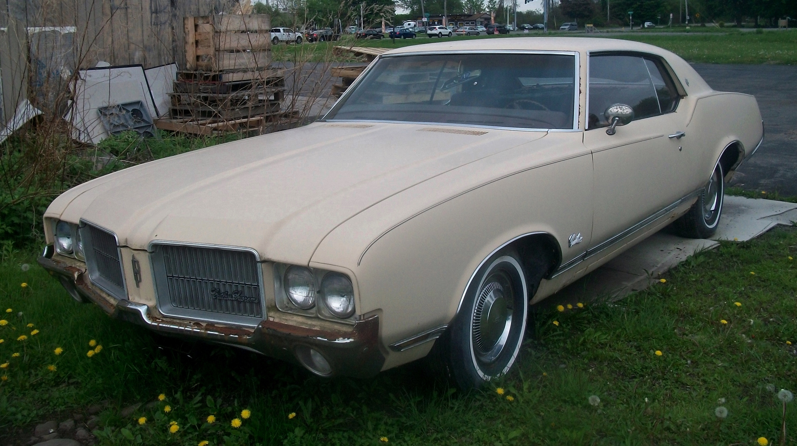 An abandoned 1971 Oldsmobile Cutlass Supreme in Rochester, NY